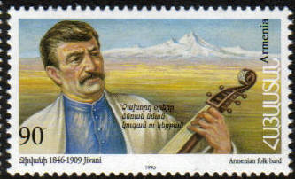 Stamp of Armenia